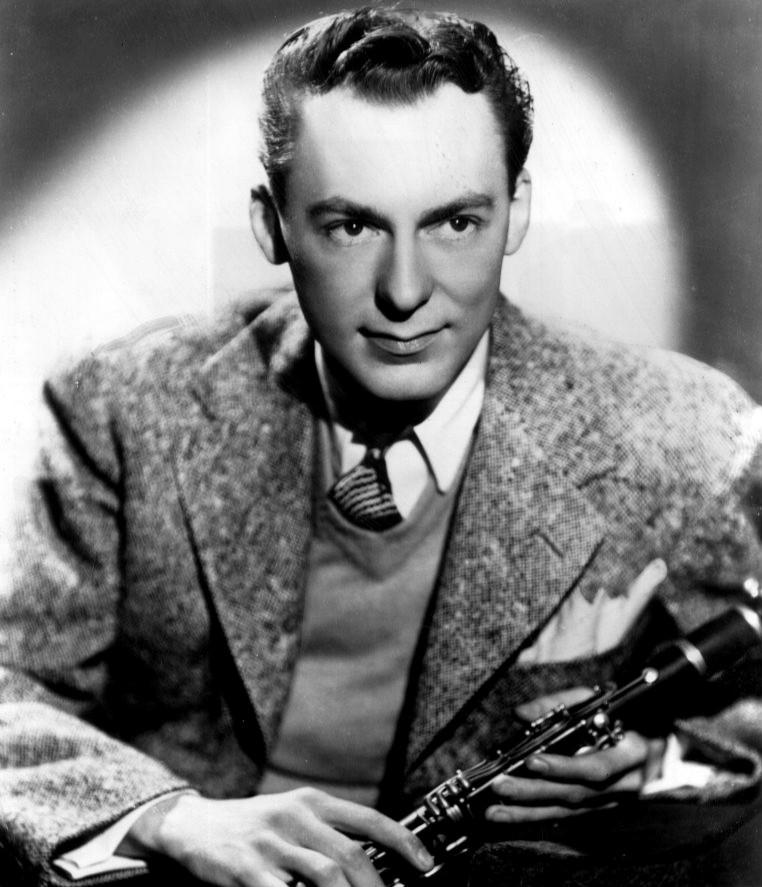 Photo of Woody Herman.